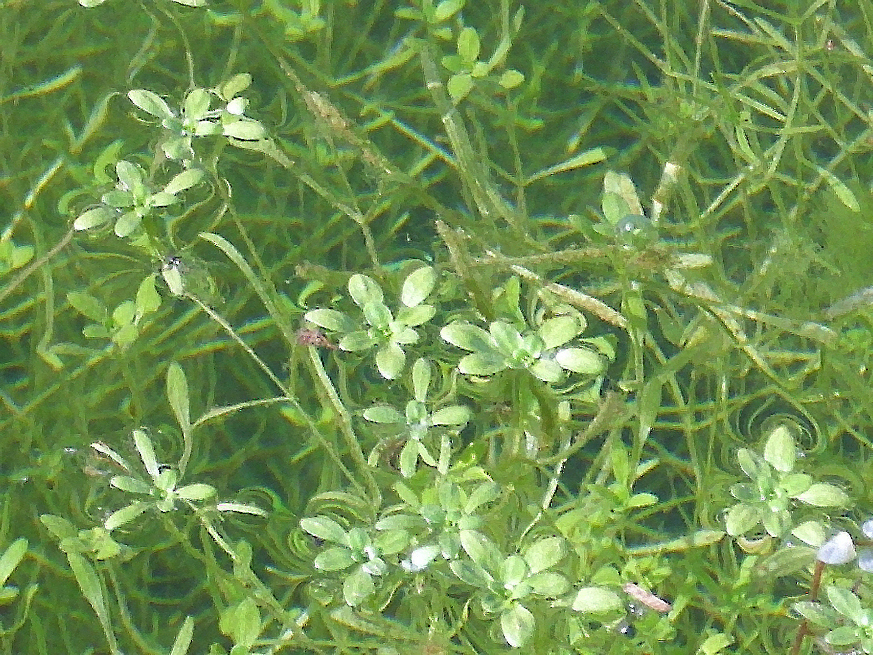 Callitriche brutia habit, Dehesa Boyal de Puertollano, Spain